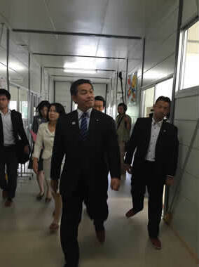 Hiroshi Hase, Minister of Education, Culture, Sports, Science and Technology, and Mayuko Toyota, Parliamentary Secretary for Education, Culture, Sports, Science and Technology, inspected the temporary buildings of Naraha Town Narahaminami Elementary School, Naraha Town Narahakita Elementary School and Naraha Town Naraha Junior High School at Iwaki Meisei University in Iwaki City, Fukushima Prefecture on July 14, 2016.